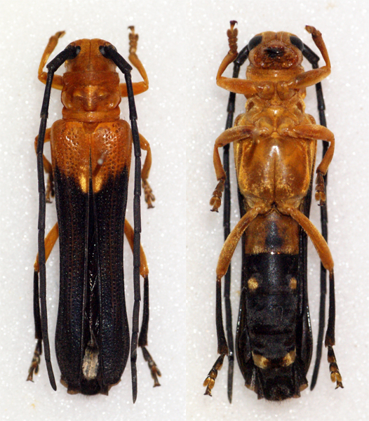 Nonfried,1892 Sex: Female Data: 12-2011 - Kondoa District - Tanzania Size: ?